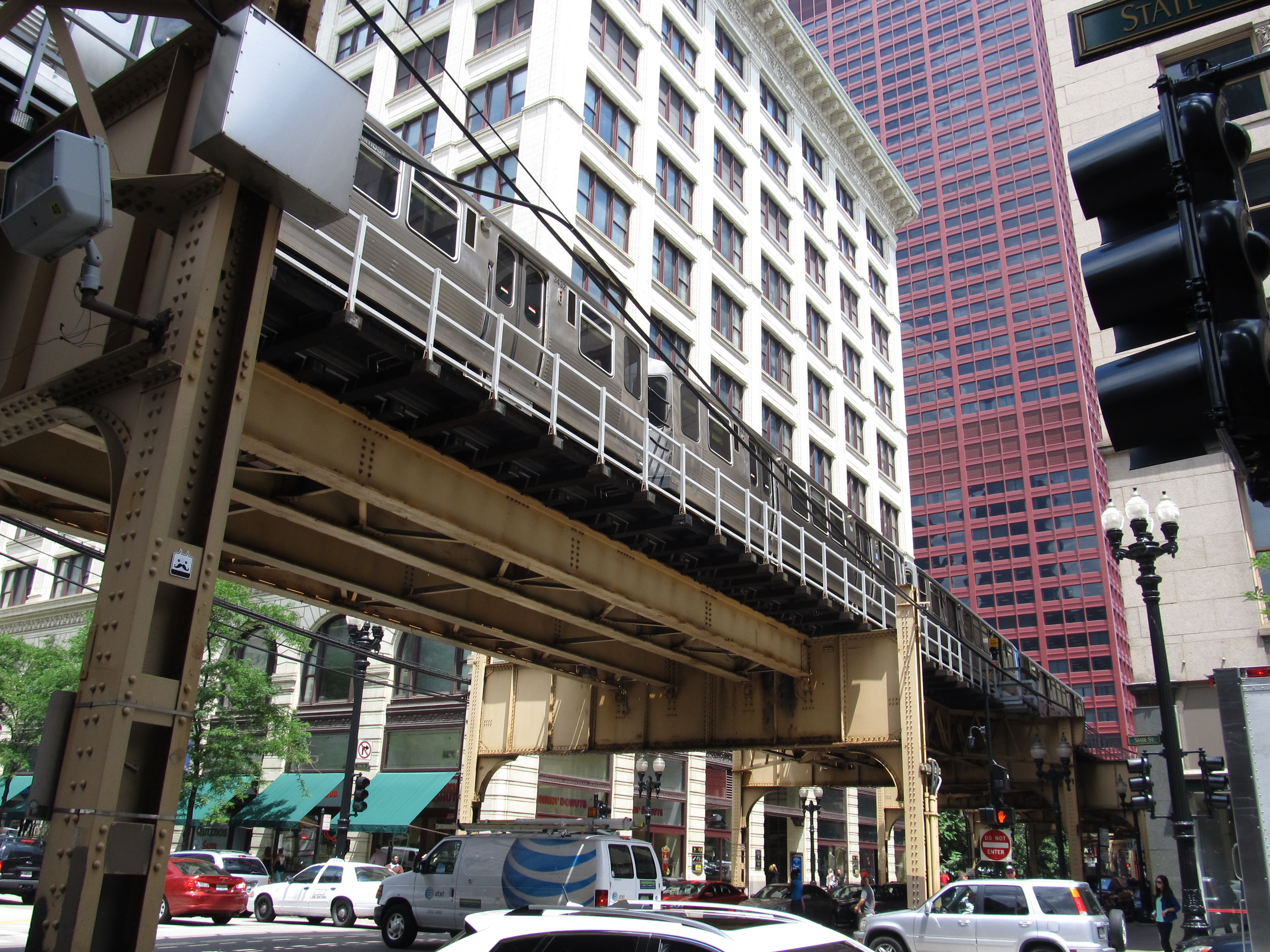 The 'L' (sometimes written as "L", El, EL, or L), short for "elevated", is the rapid transit system serving the city of Chicago and some of its surrounding suburbs, in the U.S. state of Illinois. It is operated by the Chicago Transit Authority (CTA). It is the second largest rapid transit system in total track mileage in the United States, after the New York City Subway, and is the third busiest rail mass transit system in the United States, after the New York City Subway and the Washington Metro. Chicago's 'L' is one of four heavy rail systems in the United States (the 'L', New York City Subway, PATH, and the PATCO Speedline) that provide 24-hour service on at least some portions. The oldest sections of the 'L' started operations in 1892, making it the second-oldest rapid transit system in the Americas, after Boston. The 'L' has been credited with fostering the growth of Chicago's dense city core that is one of the city's distinguishing features. The 'L' consists of eight rapid transit lines laid out in a spoke-hub distribution paradigm mainly focusing transit towards the Loop. Although the 'L' gained its nickname because large parts of the system are elevated, portions of the network are also in subway tunnels, at grade level, or open cut. On average 788,415 people ride the 'L' each weekday, 519,959 each Saturday, and 377,308 each Sunday. Annual ridership for 2011 was 221.6 million. In a 2005 poll, Chicago Tribune readers voted it one of the "seven wonders of Chicago," behind the lakefront and Wrigley Field but ahead of Willis Tower (formerly the Sears Tower), the Water Tower, the University of Chicago, and the Museum of Science and Industry.